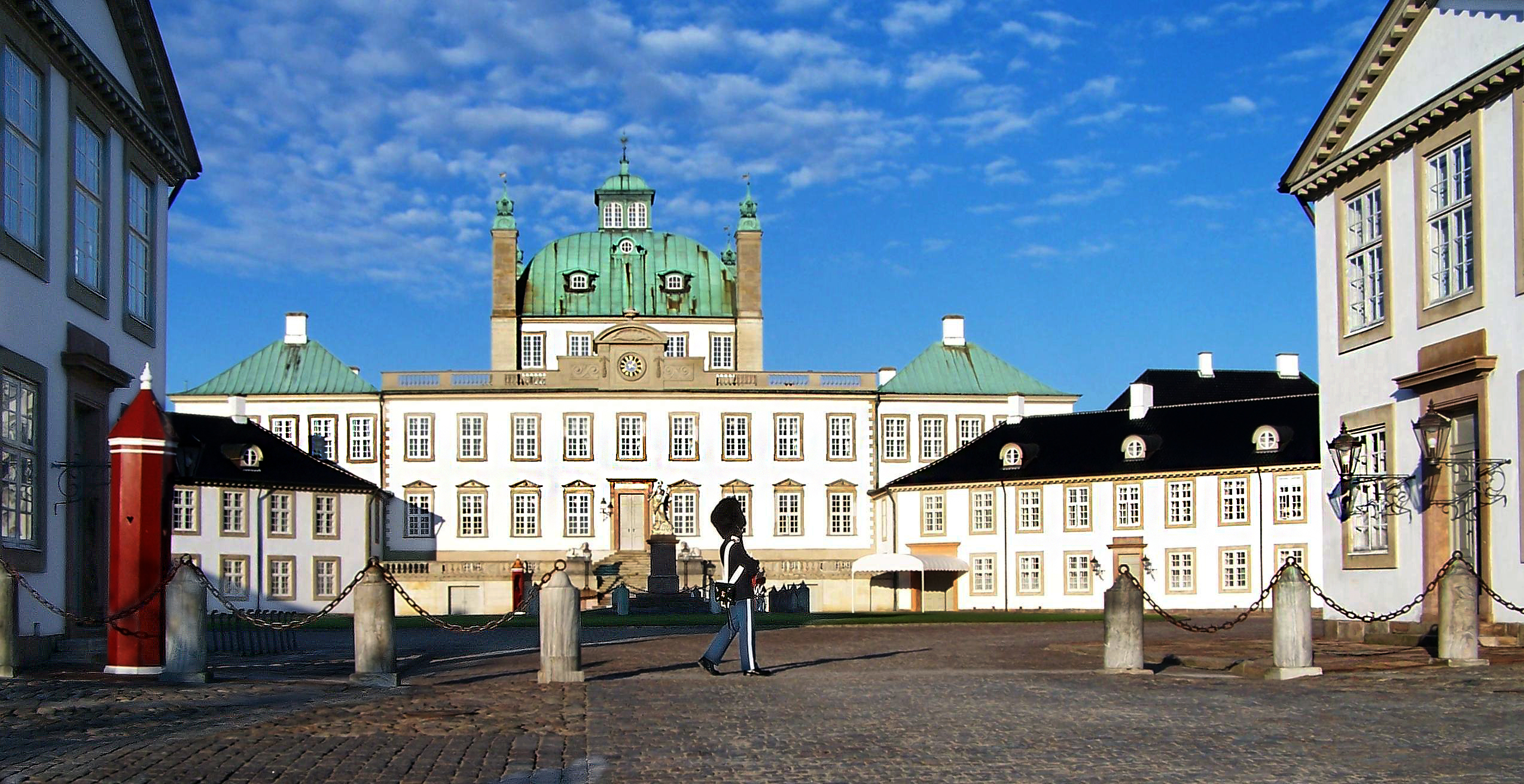 Front of Fredensborg Castle